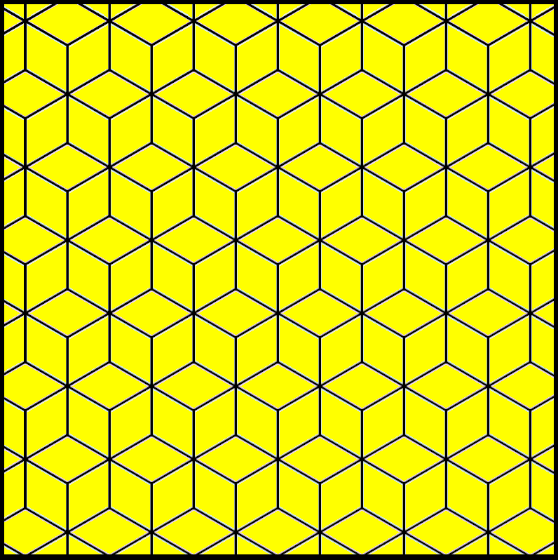 Rhombille tiling, all faces same color